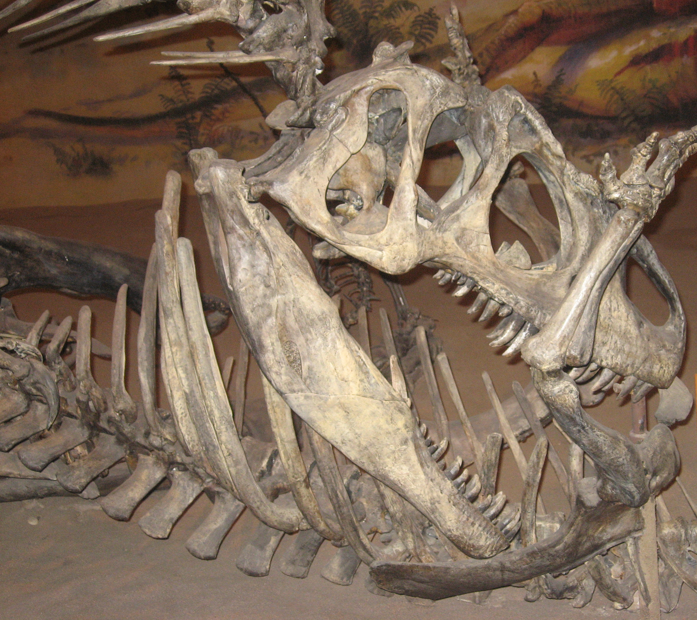 An Allosaurus vanquishes Camptosaurus, Royal Tyrrell Museum of Paleontology